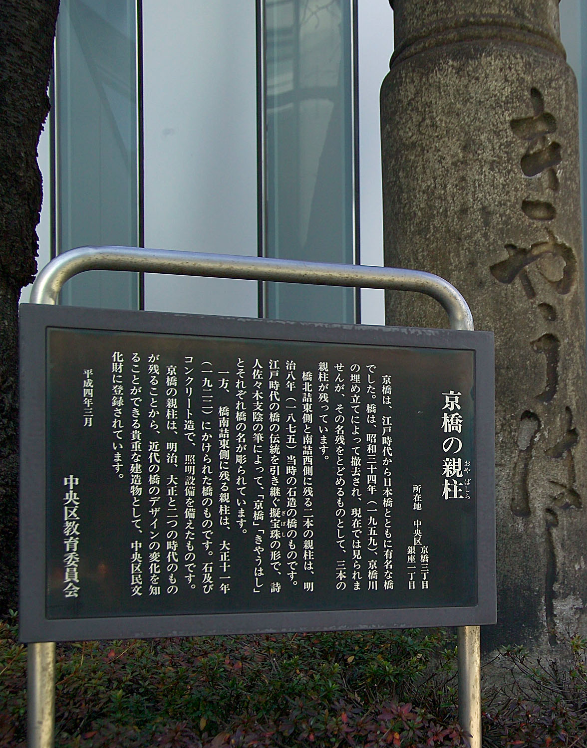 Kyobashi no Oyabashira, the "mother pillar" of the Kyobashi neighborhood of Chuo, Tokyo, Japan. I took this photo and contribute this file to the public domain.